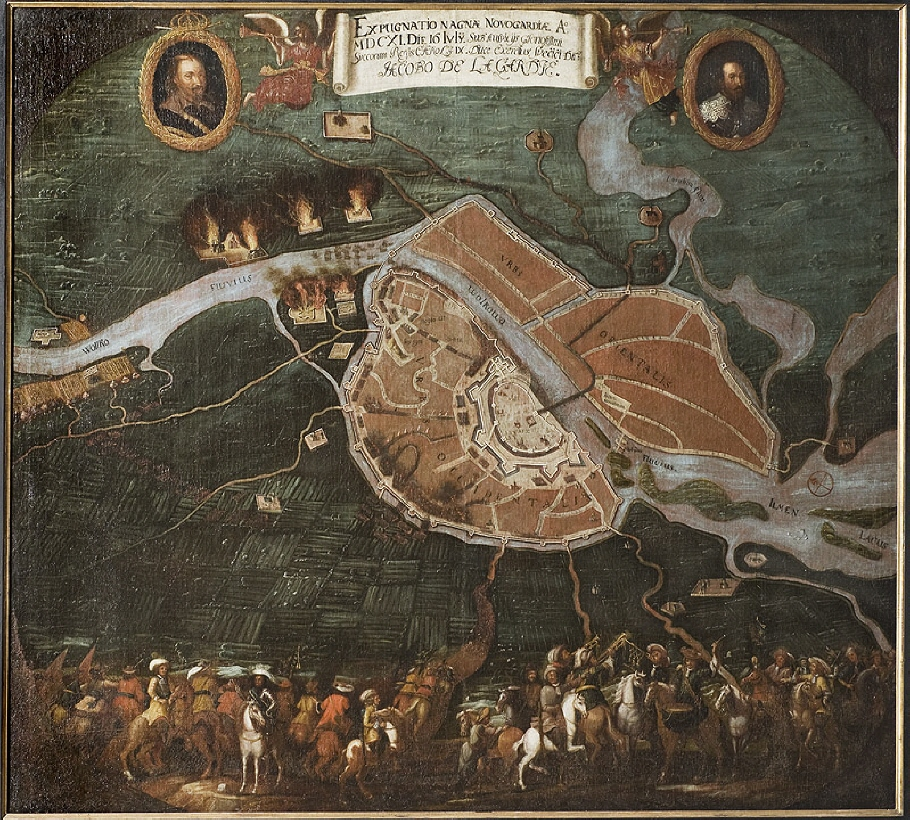 Battle of Novgorod 1611, by Johan Hammer.